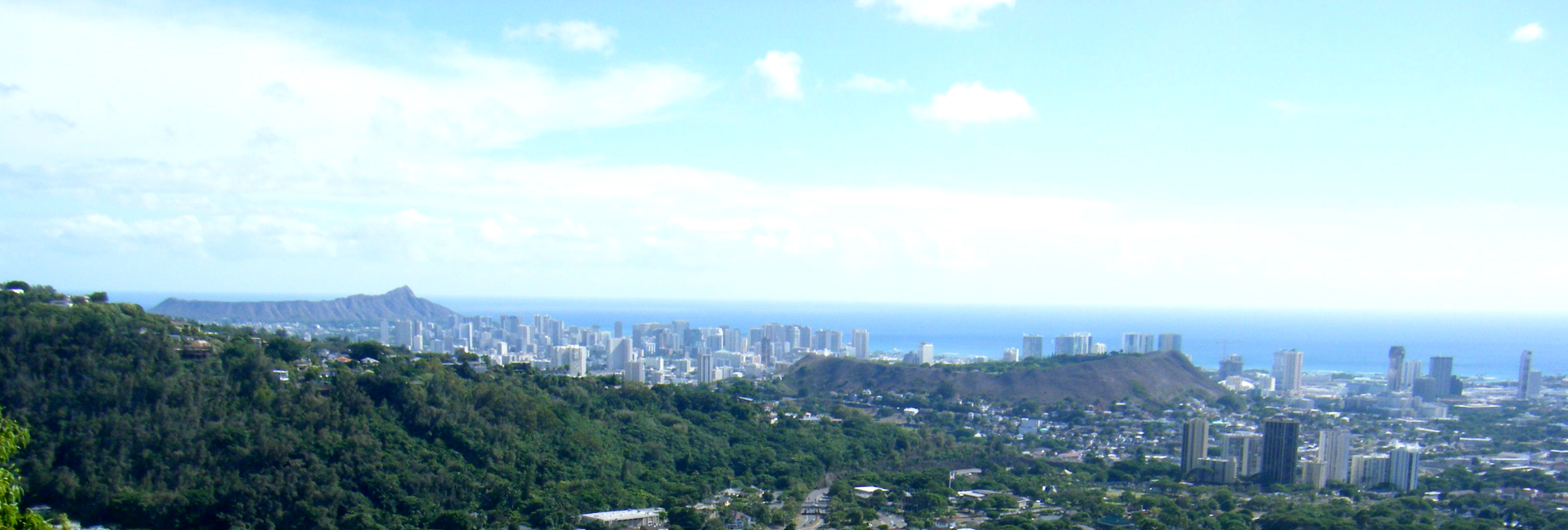 Diamond head (left), Punchbowl crater (center right) and Honolulu from Na Pueo park